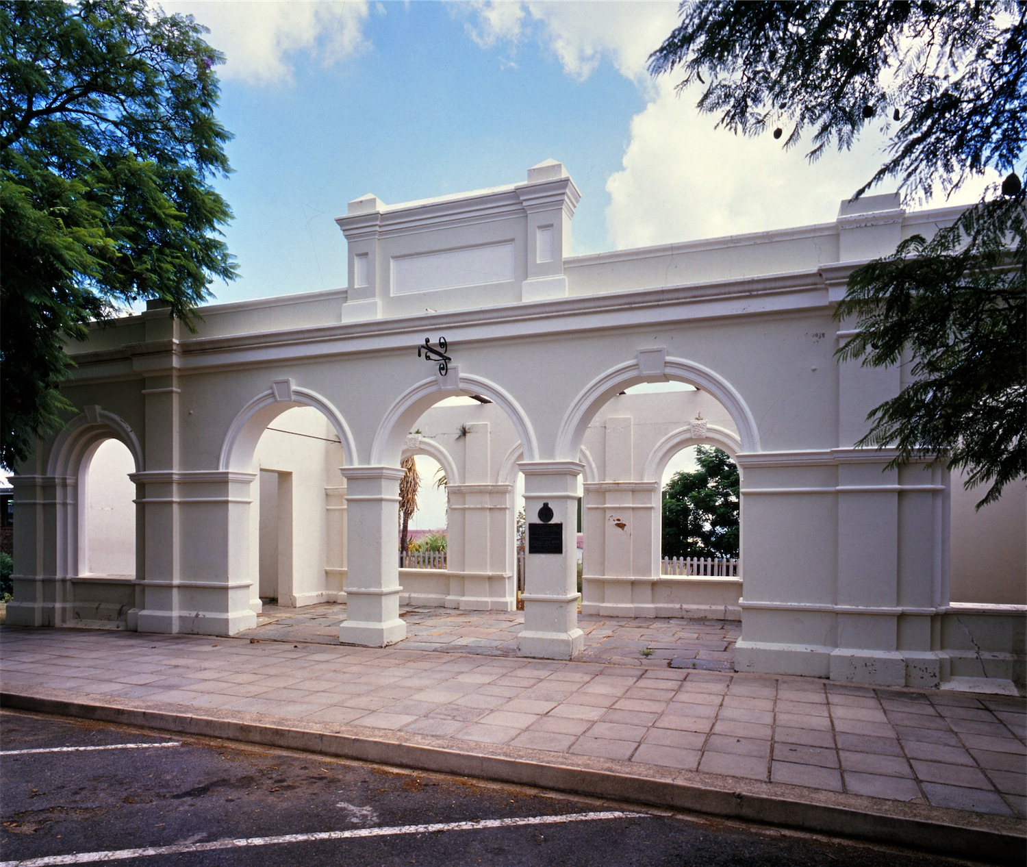 This media shows a South African Protected Site with SAHRA file reference 9/2/203/0008.